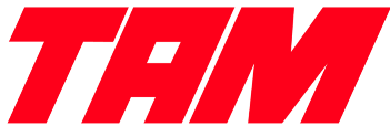 This is a logo for TAM Airlines. Source: The logo may be obtained from TAM Airlines.